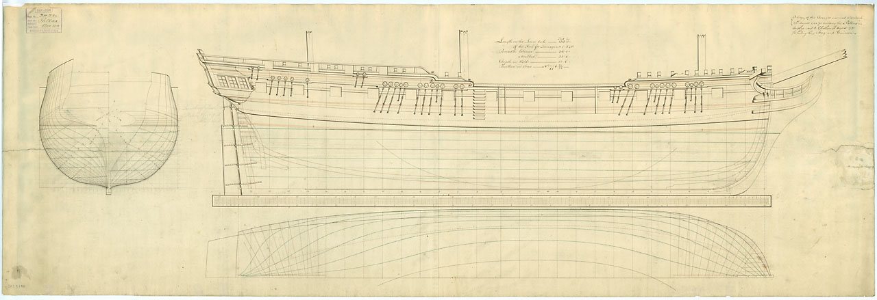 Pallas (1793), Stag (1793), Unicorn (1734) Scale 1:48. Plan showing the body plan, sheer lines, and longitudinal half-breadth for building Pallas (1793), Stag (1793), Unicorn (1734), all 32-gun, Fifth Rate Frigates. PALLAS 1793